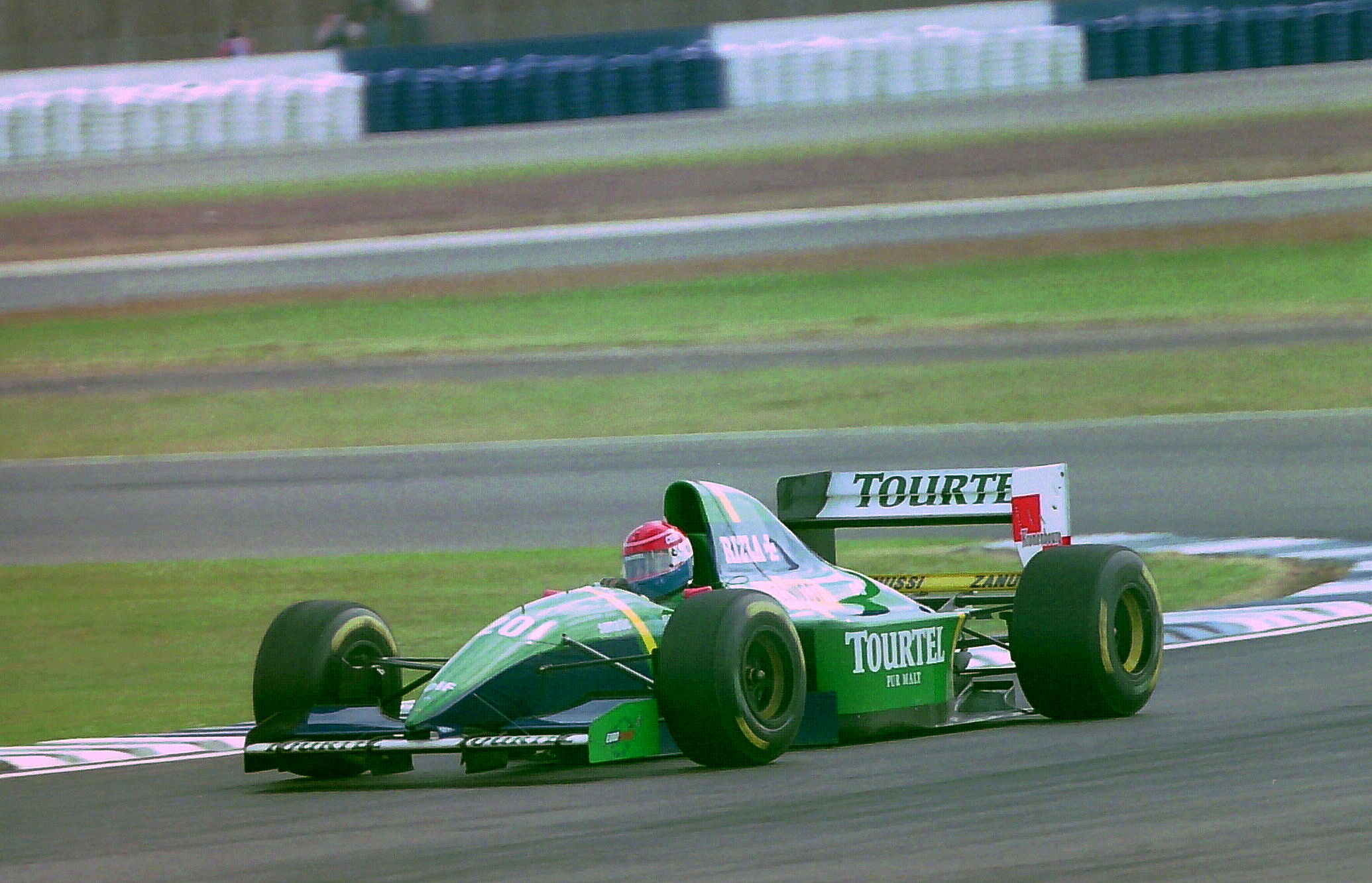 Eric Comas - Larrousse LH94 at the 1994 British Grand Prix